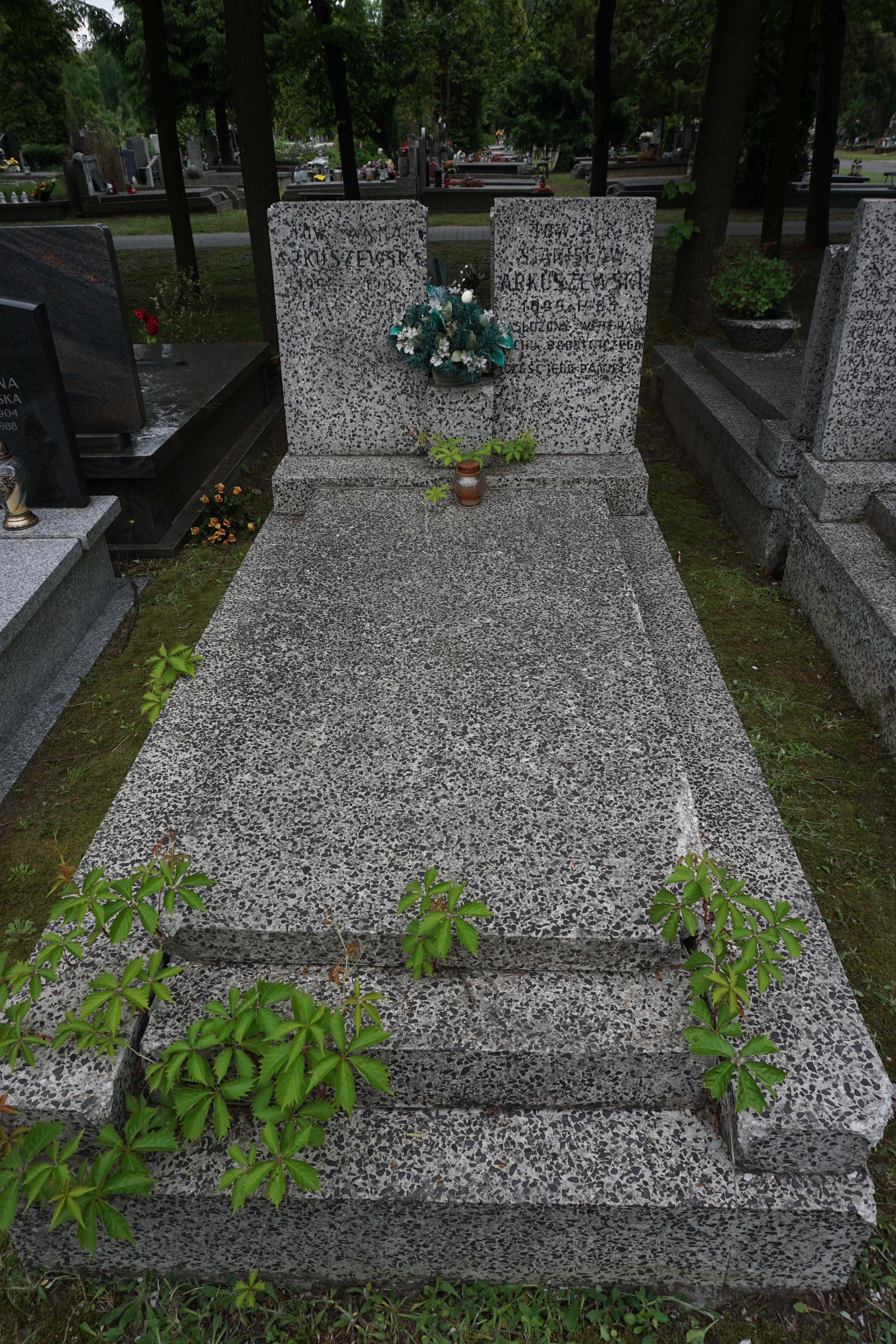 The grave of Stanisław Arkuszewski at the North Municipal Cemetery in Warsaw (section E-VII-2, row 3, grave 17)